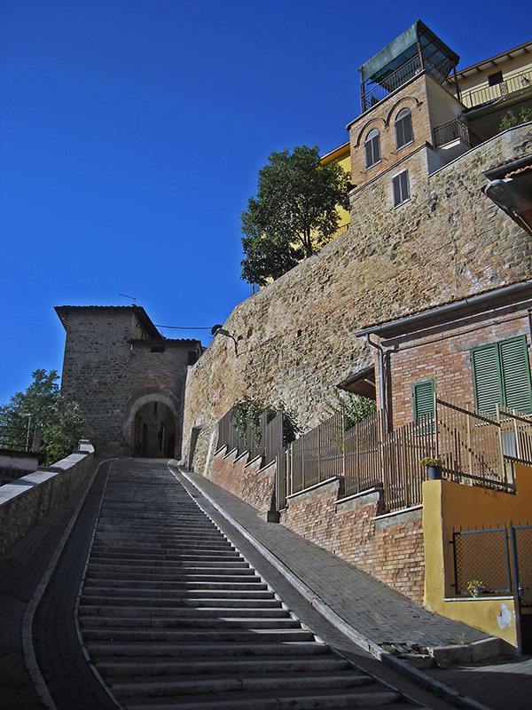 oooooooooooooooooooooooooooooooooooooooo